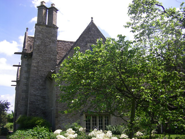 Part of Kelmscott Manor, Oxfordshire, viewed from the back garden